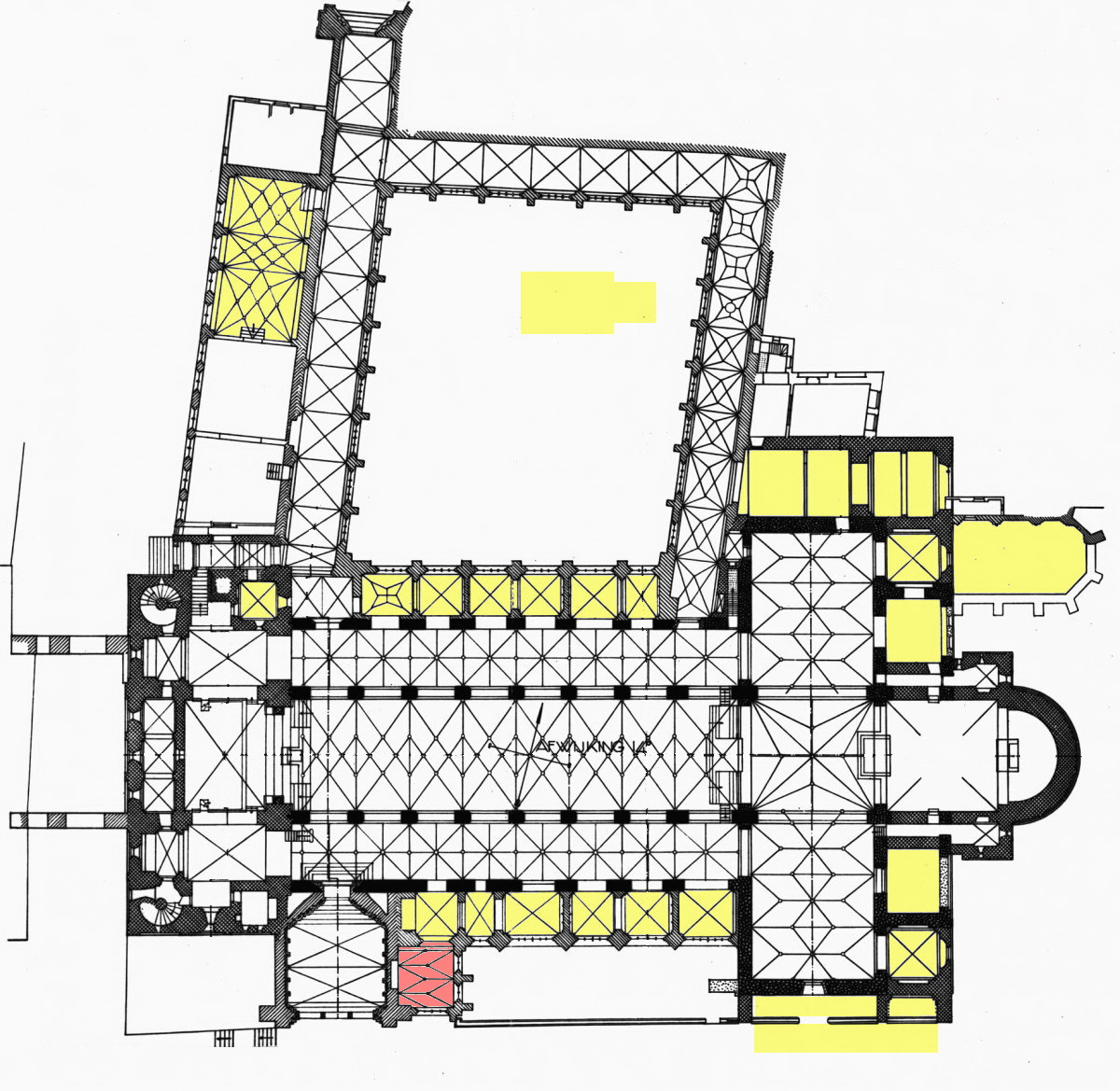 Locator map of chapels of the Basilica of Saint Servatius in Maastricht, the Netherlands. This map by an unknown author was first published in 1926 in Van Nispen tot Sevenaers De monumenten in de gemeente Maastricht, Deel 1, and donated to Wiki Commons by Rijksdienst voor het Cultureel Erfgoed on 7 January 2013. All colouring and other edits are by Kleon3. In yellow all 17 chapels of Sint-Servaasbasiliek in past and present. In red the baptistry, an annex to the south aisle chapels.